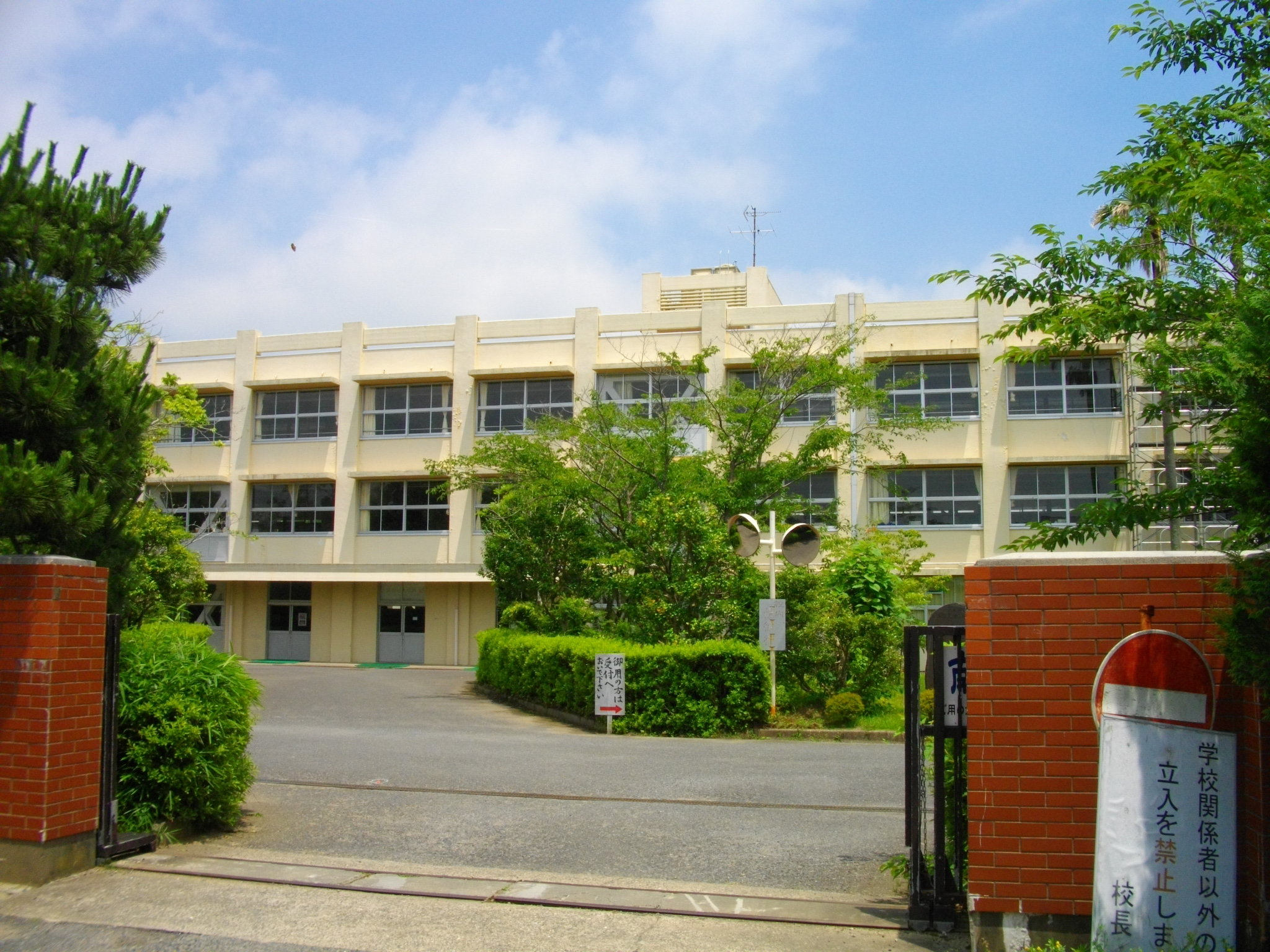 Tousou Technical High School